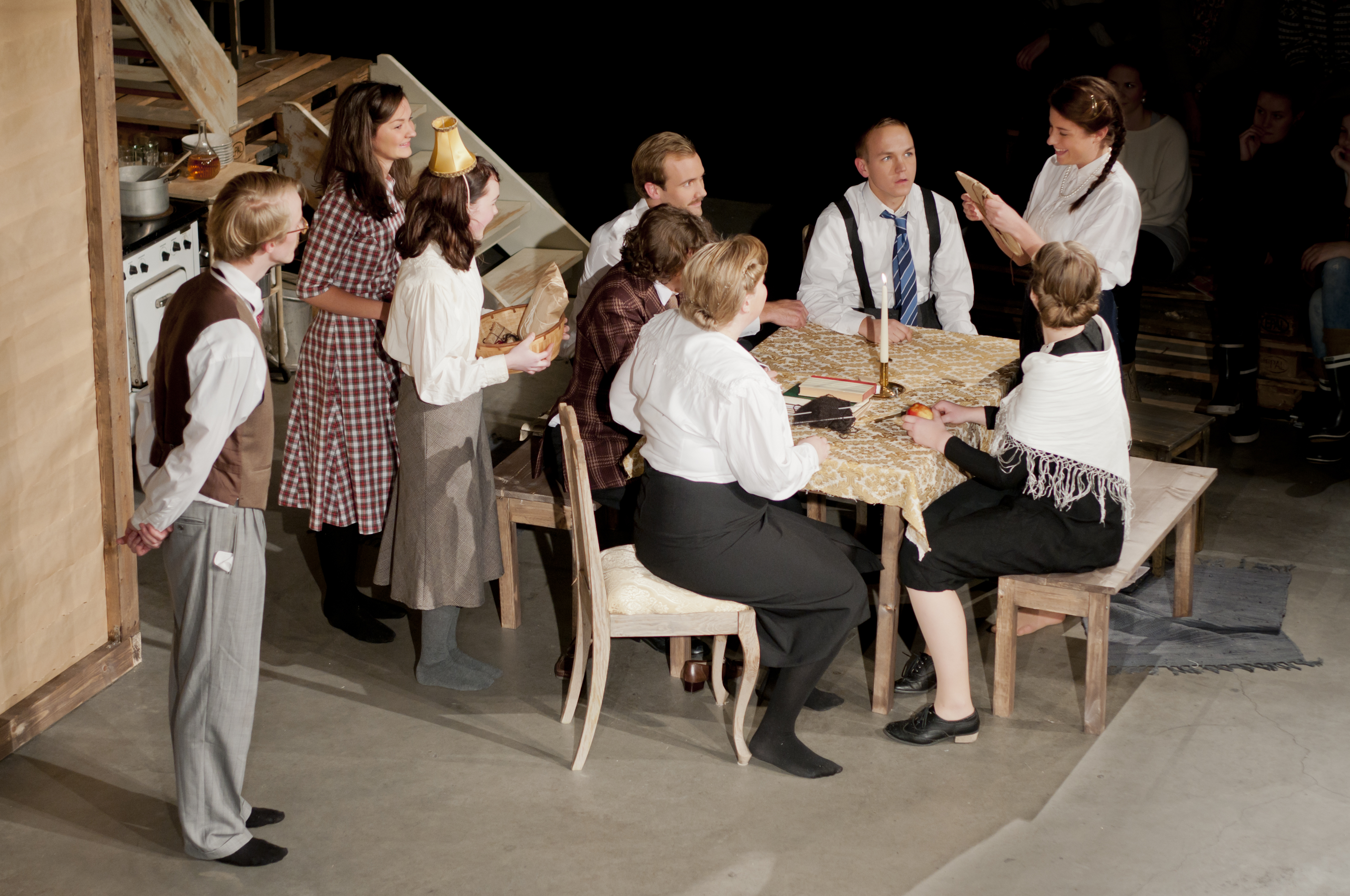 Production of Anne Frank's Diary by Immaturus student theatre at The Academic Quarter in Bergen, Norway, October 10th 2011